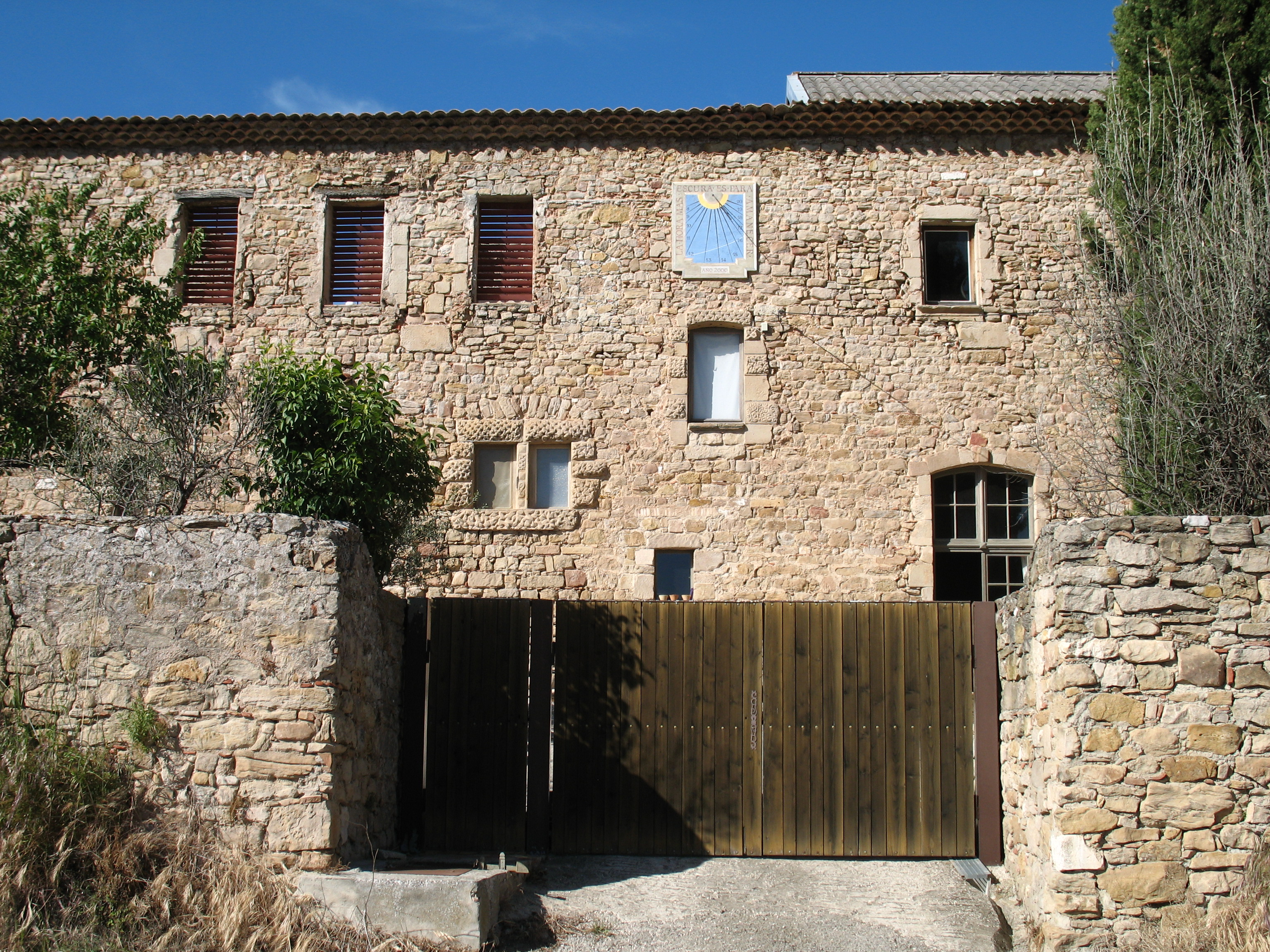 Couvent des Minimes of Pourrières - Var - France